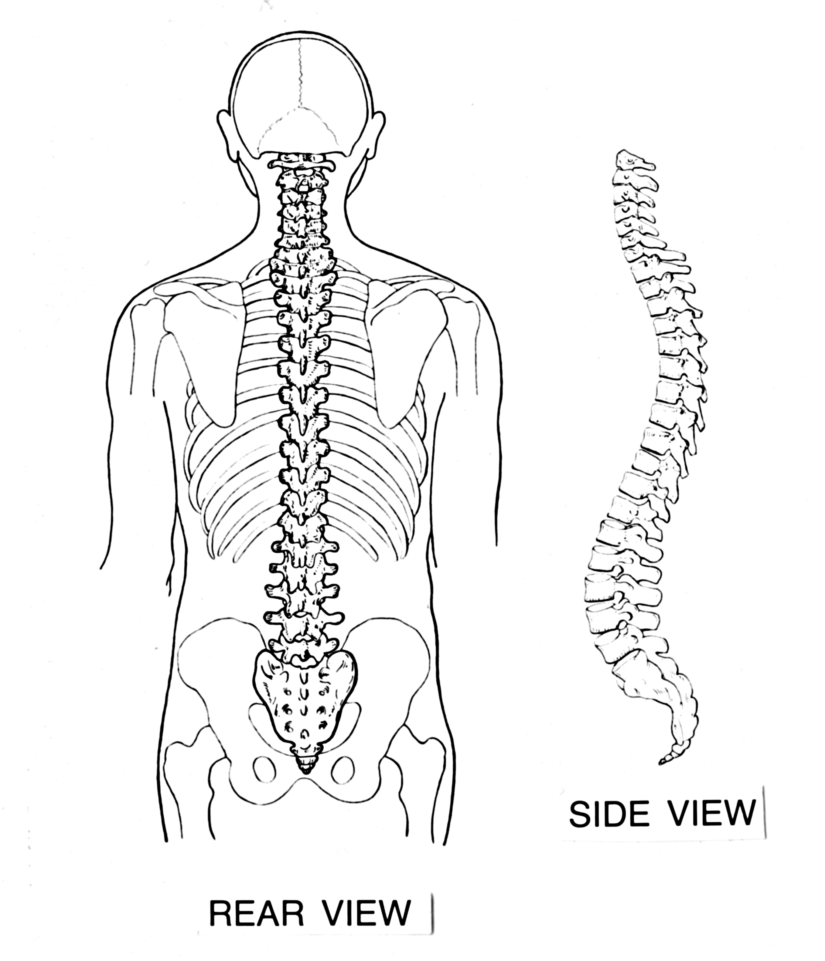 Diagram of human backbone; rear and side views.